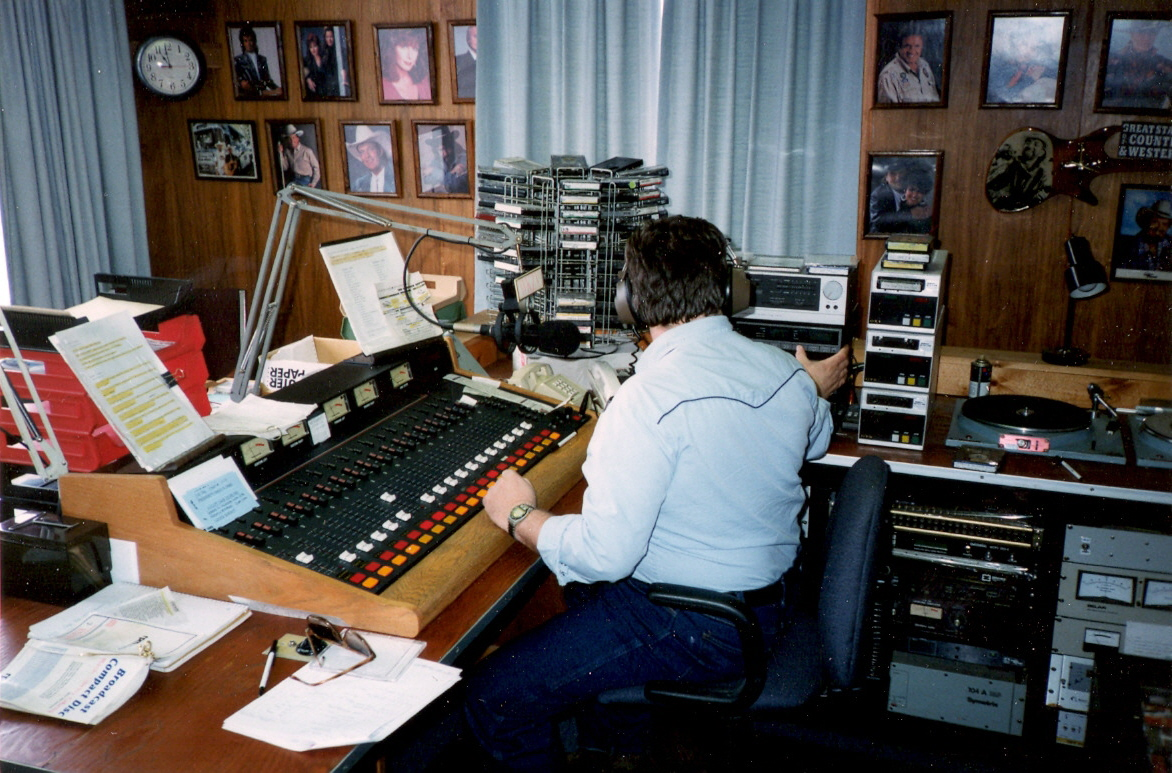 This was taken by me (Radiohawk) personally while writing a story about the WKZV radio station in 1997 for Radio World Magazine. It was not submitted to the publisher, thus it was never used in the article.